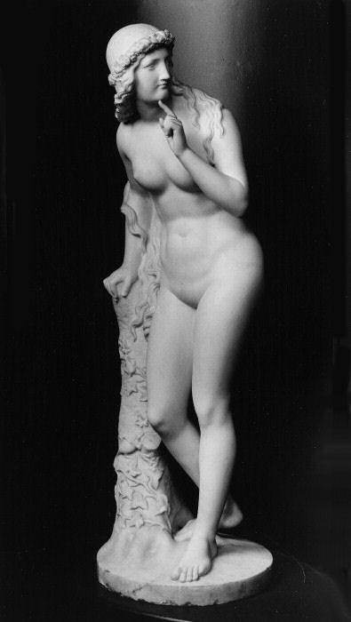 19th Century German Sculture entitled “ Melusine” in the Russell Cotes Museum and Art Gallery, Bournemouth, Dorset, England